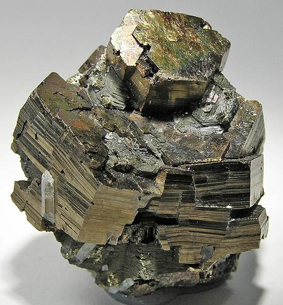 Pyrrhotite Locality: Trepča complex, Trepča valley, Kosovska Mitrovica, Kosovo (Locality at ) Size: 4.8 x 4.1 x 3.4 cm. The vast majority of the fine pyrrhotites seen recently have likely come from Dal’negorsk. But this beautiful, brassy compound crystal is from Kosovo. Those roughish spots are natural etching, not damage. Ex. Stoudt Collection.